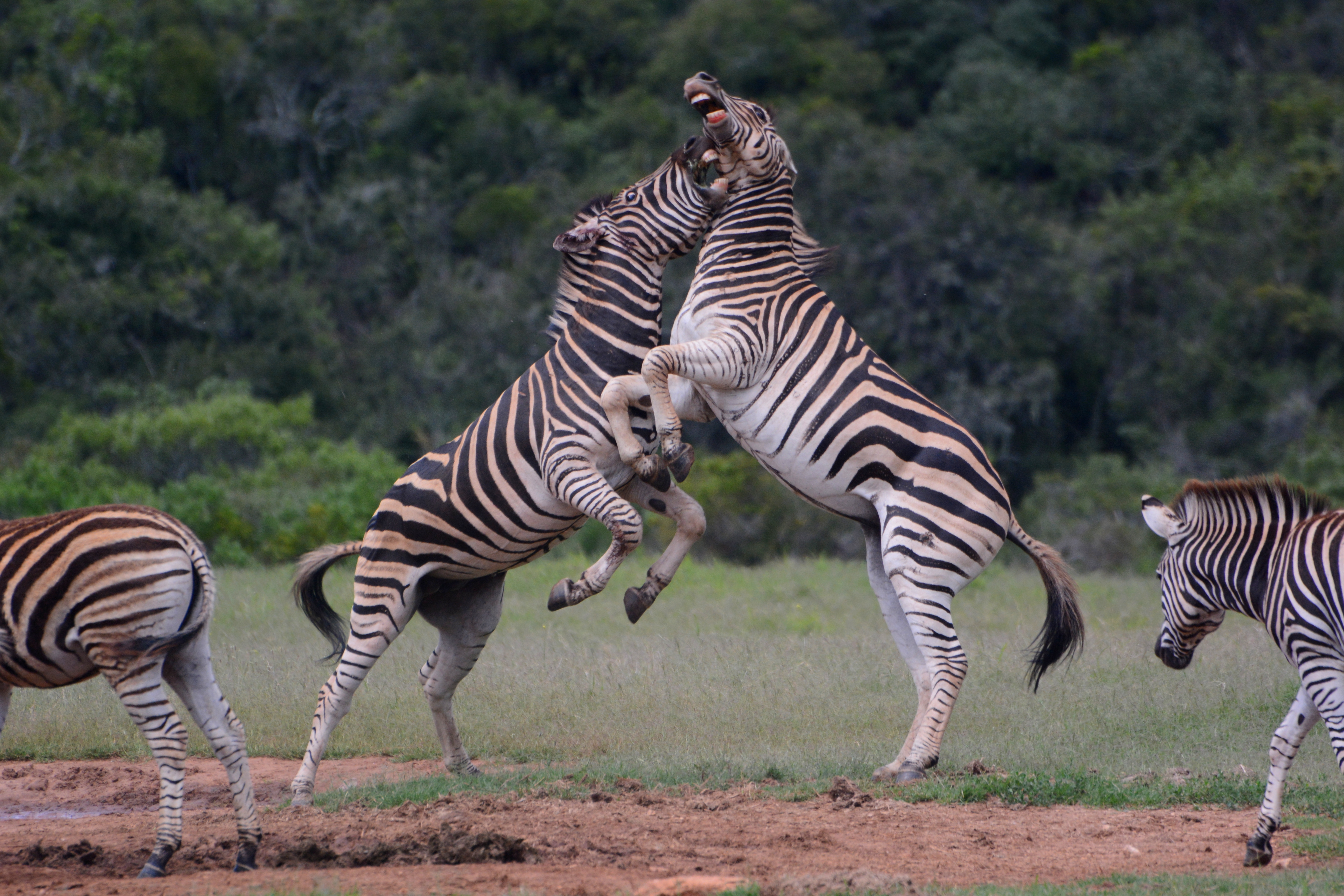 Picture of fighting Burchell's Zebras, taken in Addo National Elephant Park